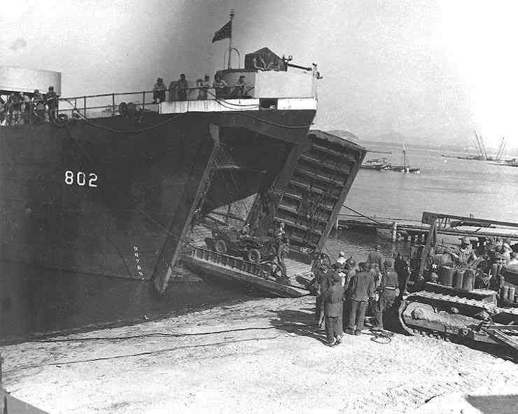 USS LST-802 unloading vehicles at Inchon, South Korea. A Jeep is rolling down her ramp, and a bulldozer is parked on the beach.